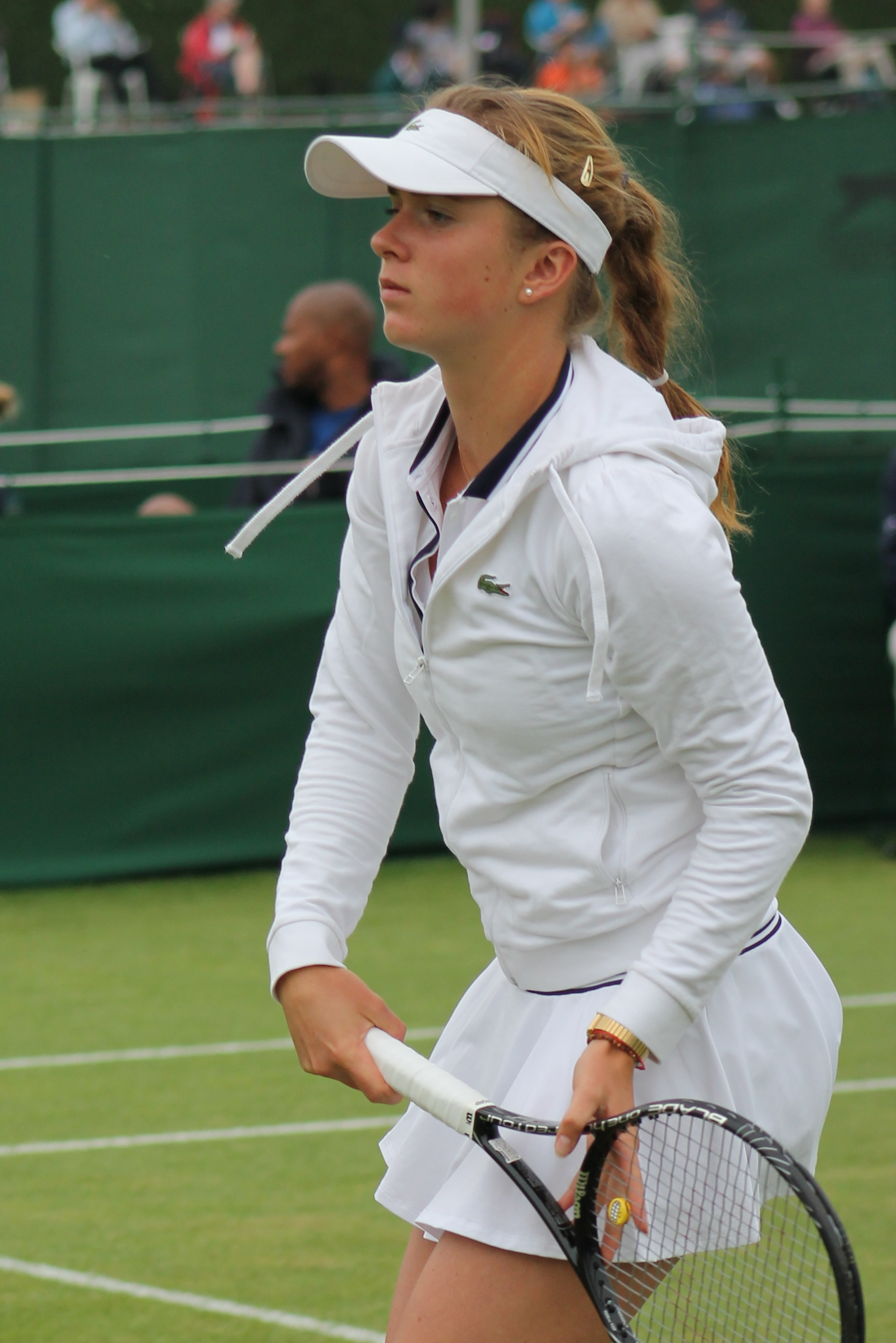 Elina Svitolina, 2013 Wimbledon Qualifying Tournament